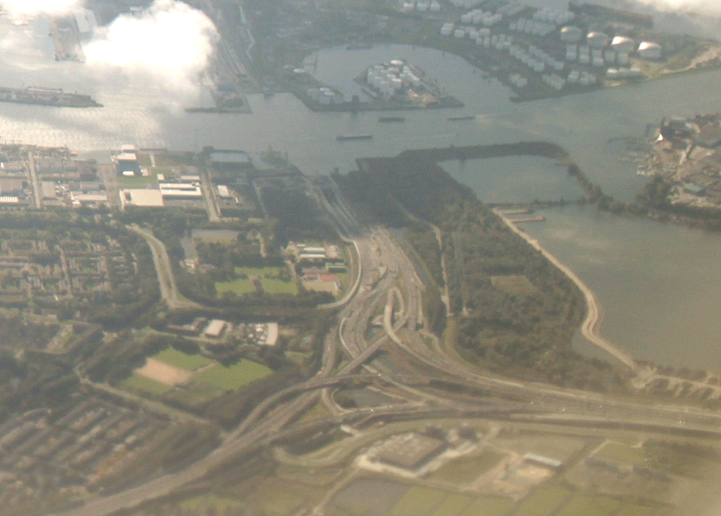 Junction Coenplein between the A8 and A10 motorways near Amsterdam, the Netherlands